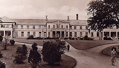 District Hospital Banbridge Co Down Ireland vintage Irish postcard